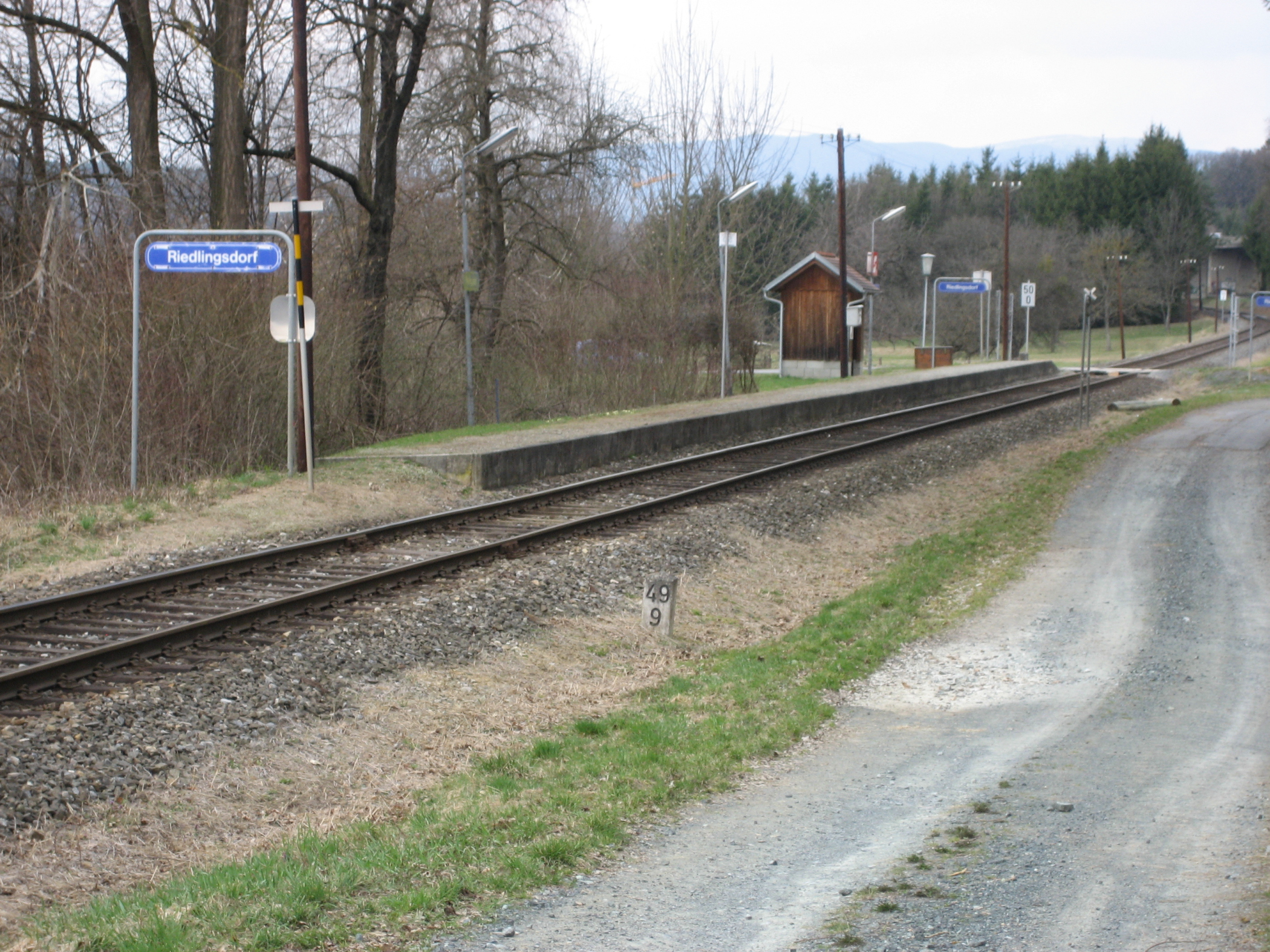 Riedlingsdorf train station in the Burgenland